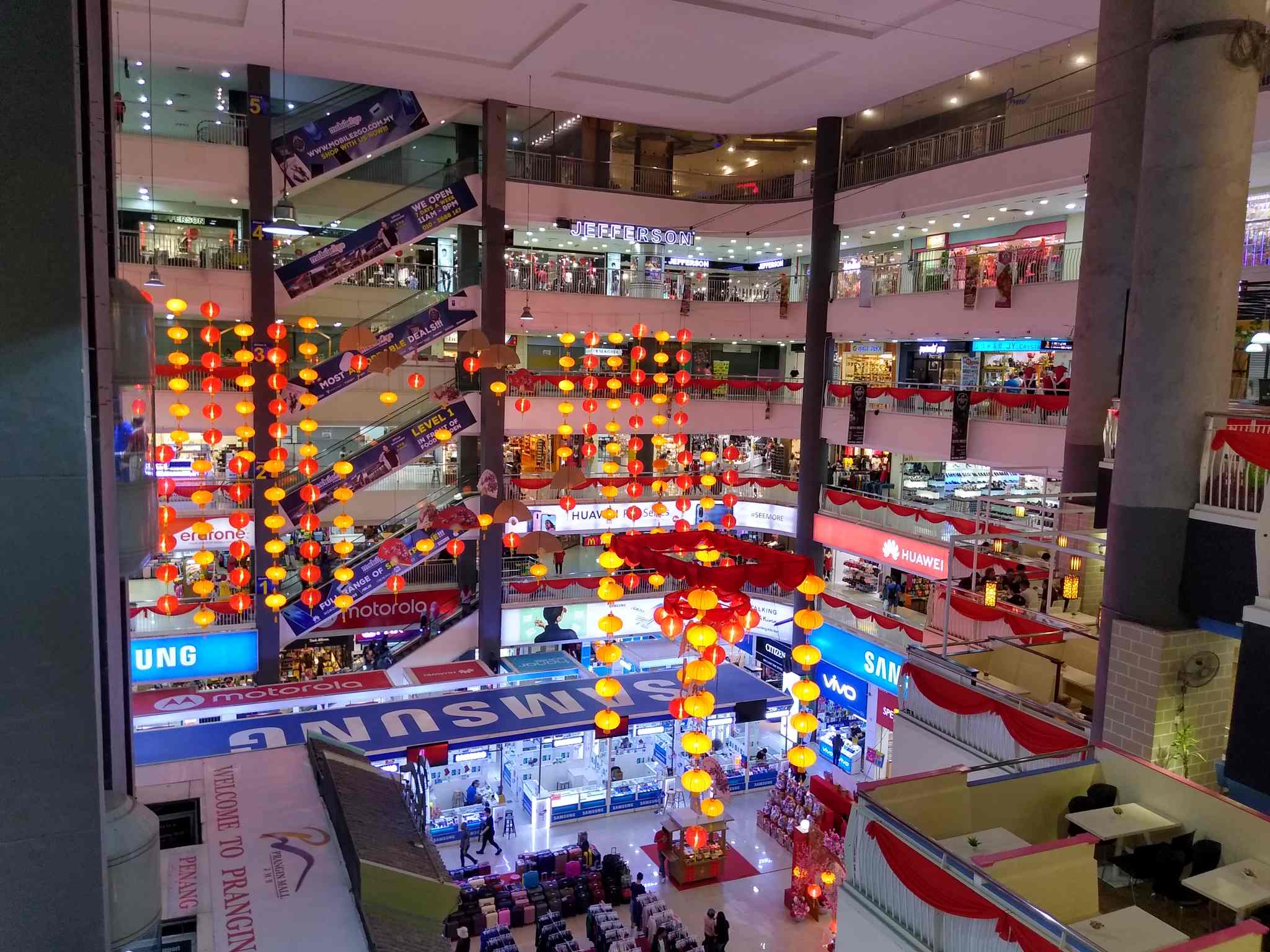 Atrium of Prangin Mall in January 2020.